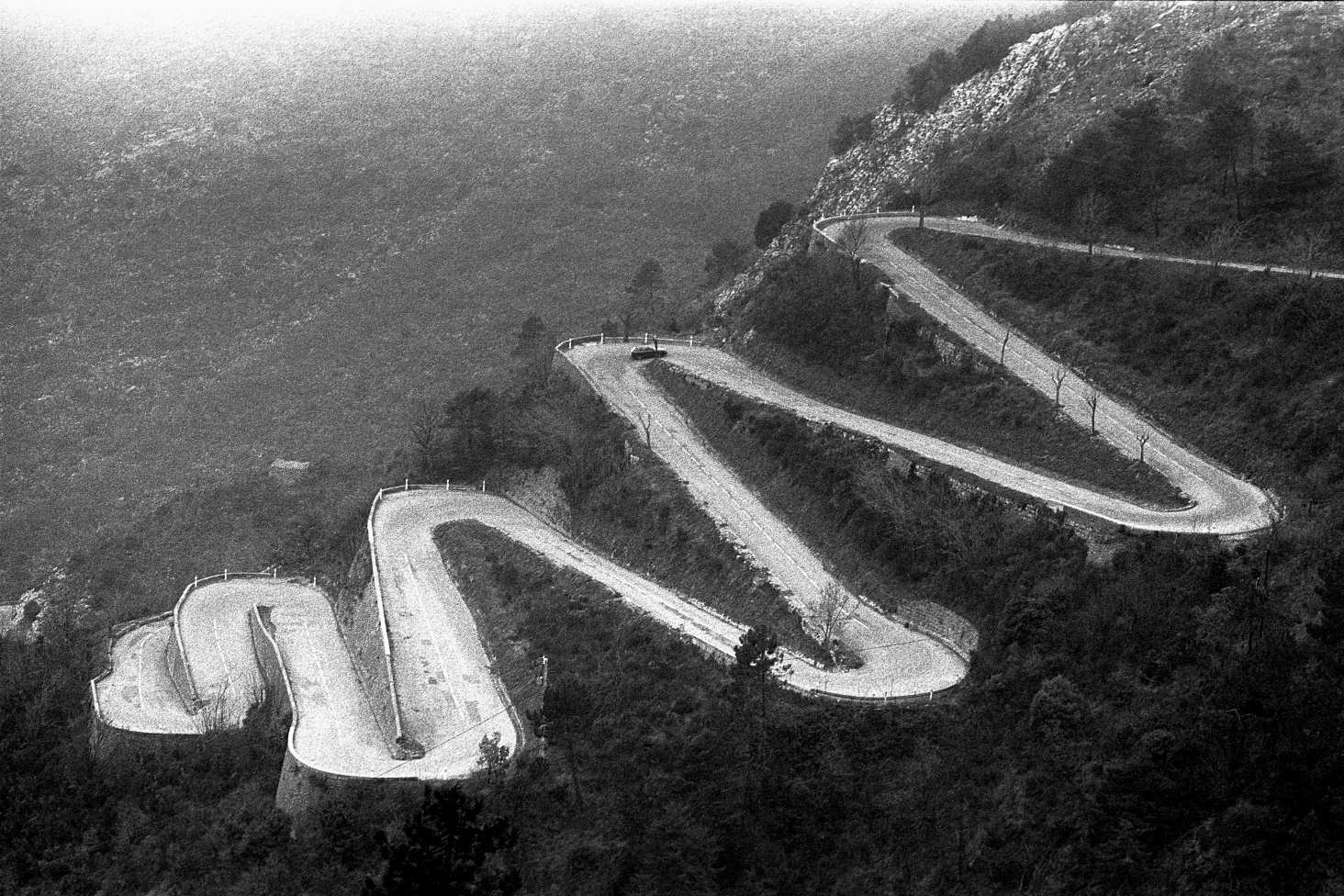 Route du Col de Braus - French D2204 road ascends to the Col de Braus using hairpin bends in the Alpes Maritimes in the French Alps